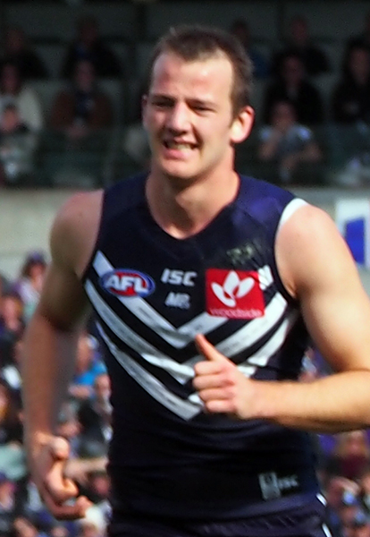 Michael Apeness playing for Fremantle Football Club at Domain Stadium, Perth. Round 23: Fremantle vs Western Bulldogs, 28 August 2016